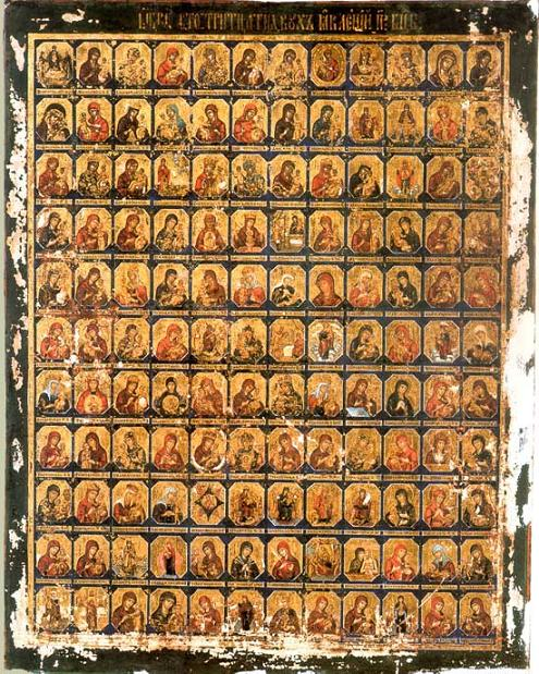 Icon with depiction of varios typos of Marian icons.